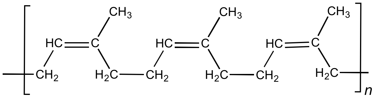 corrected image of polyisoprene